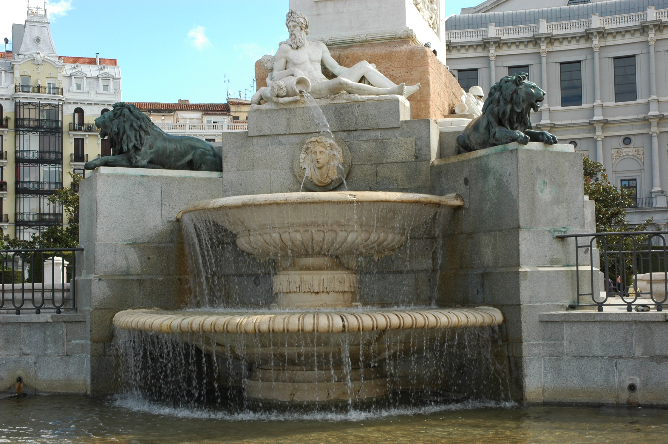 Partial view of the Monument to Philip IV of Spain at the Plaza de Oriente (square) in Madrid (Spain). Inaugurated in 1843.